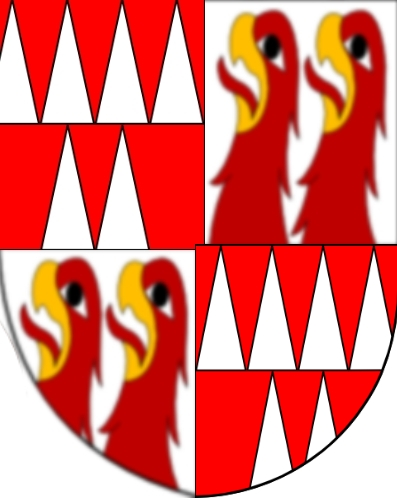 Coat of arms of Jan Očko z Vlašimi, bishop of Olomouc, (1351-1364)